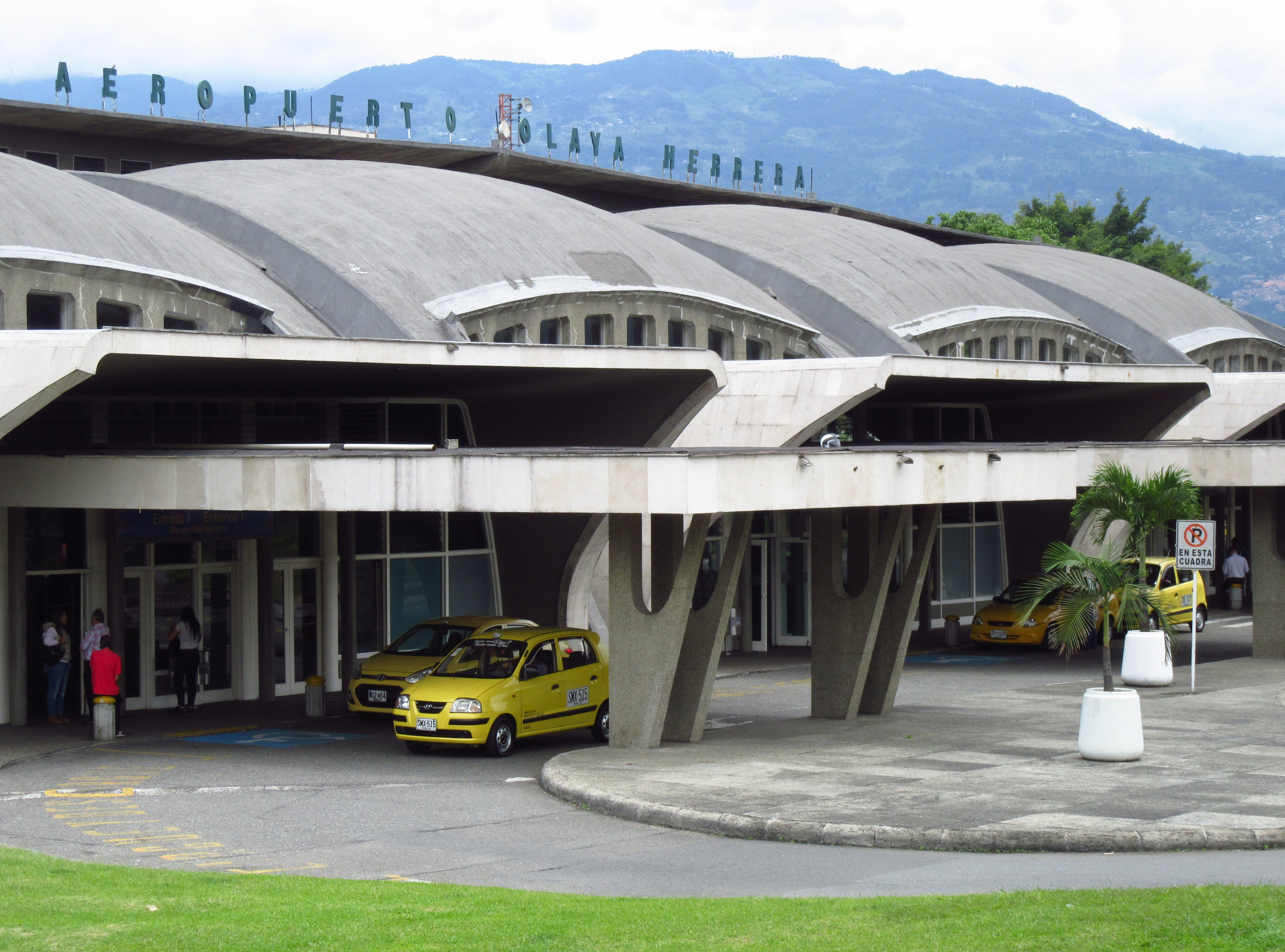 Medellín